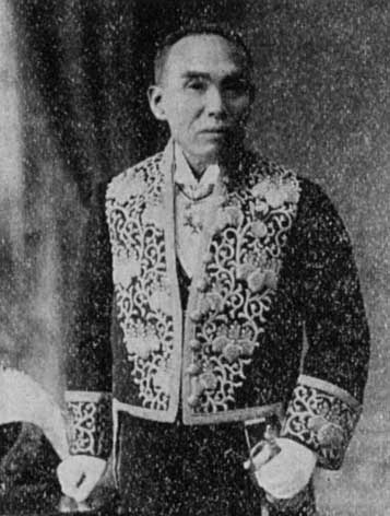 Toratarō Yoshimura.